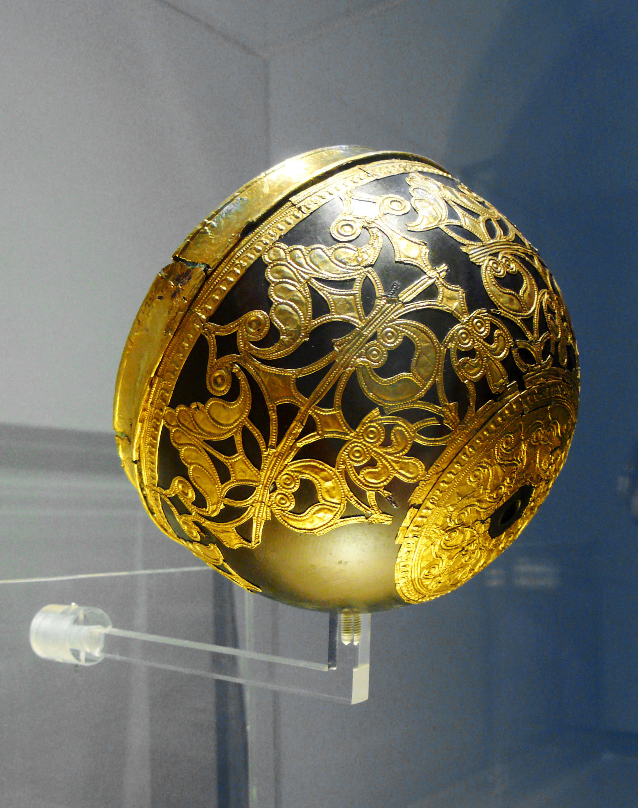 Schwarzenbach Bowl, Germany. About 420 BC The openwork design shows characteristic early Celtic ornaments. The prototypes were palmettes and lotus-flower popular in Mediterranean antiquity. Original motifs were divided into individual leaves and the rearranged. The reason for displaying the ornaments on a bowl is still unknown, probably served as a drinking horn mounts. Normally Berlin. Exhibition: Kunst der Kelten, Historisches Museum Bern, Art of the Celts, Historic Museum of Bern.